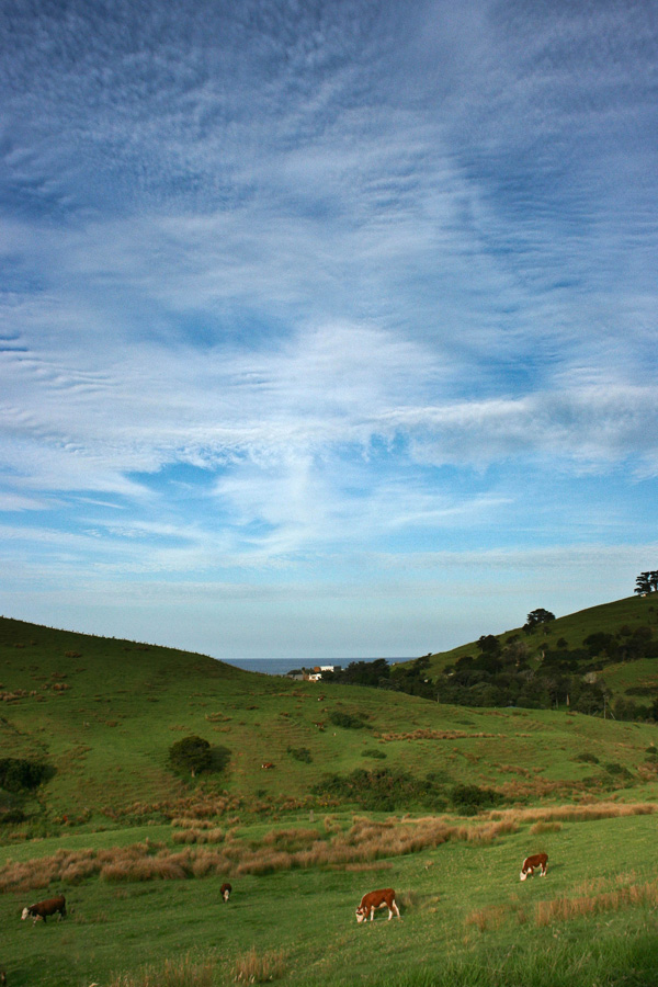 Cattle farm, near Goat Island Marine Reserve, Leigh.